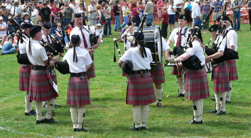 A pipe band in competition at the Skagit Valley (WA, USA) Highland Games. Their kilts are pleated in a style known as military pleating, a style used by many pipe bands. In military pleating, each pleat will be centered on a particular stripe and hence it is also called pleating to the stripe. It results in the horizontal bands which feature so prominently along the back of the kilt. See the discussion page for additional comments on kilt pleating as well as web references to other photos.